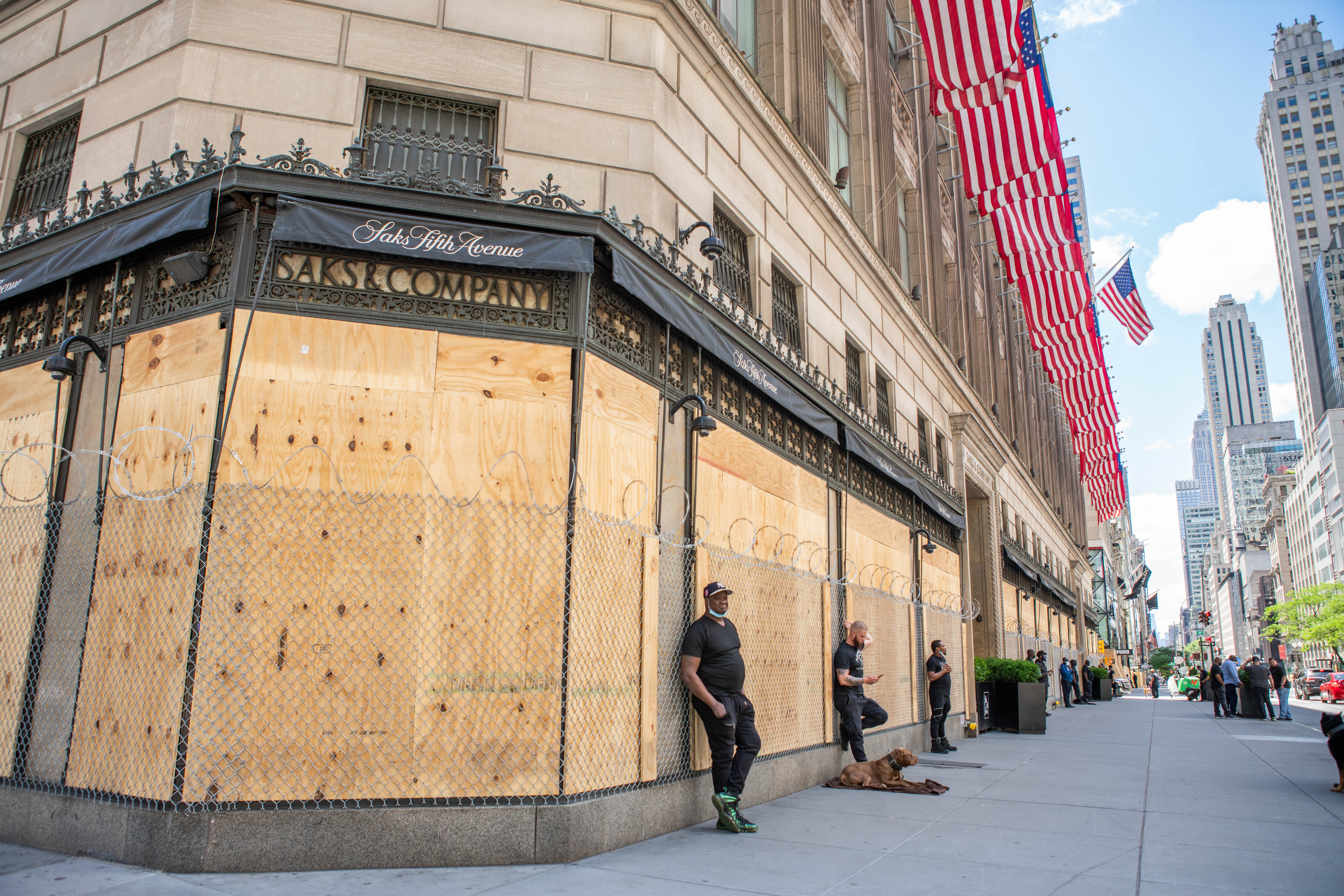 Many of the stores and office buildings boarded up their first floor windows and entrances to protect from damage and looting during the Black Lives Matter protests in New York City. Saks Fifth Avenue took it a step further and added private security, fencing and barbed wire.